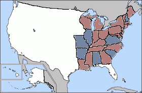 1840 elections in the USA